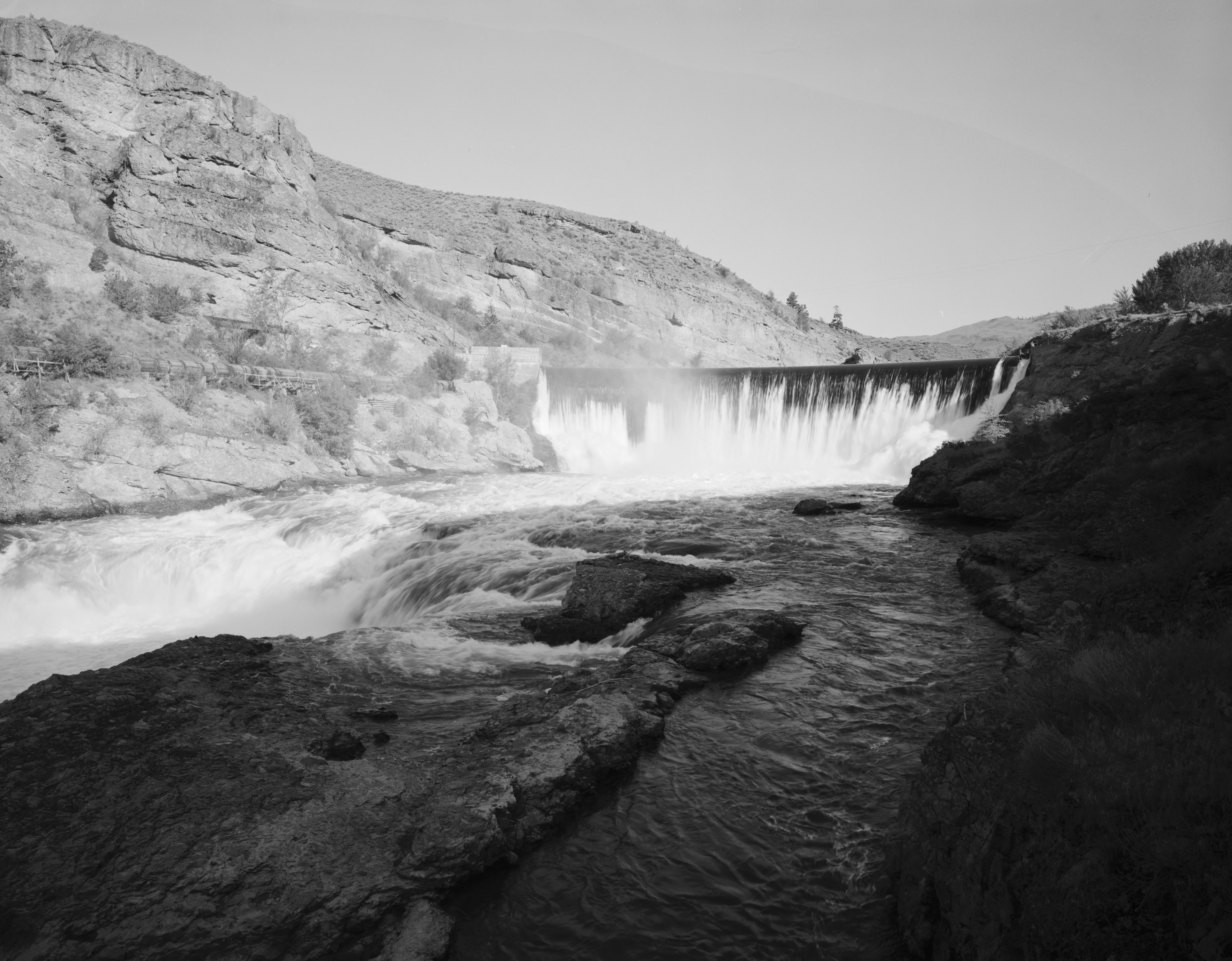 The Enloe Dam and Similkameen River — near Oroville, Okanogan County, Washington. Image: HAER—Historic American Engineering Record images of Washington (state).